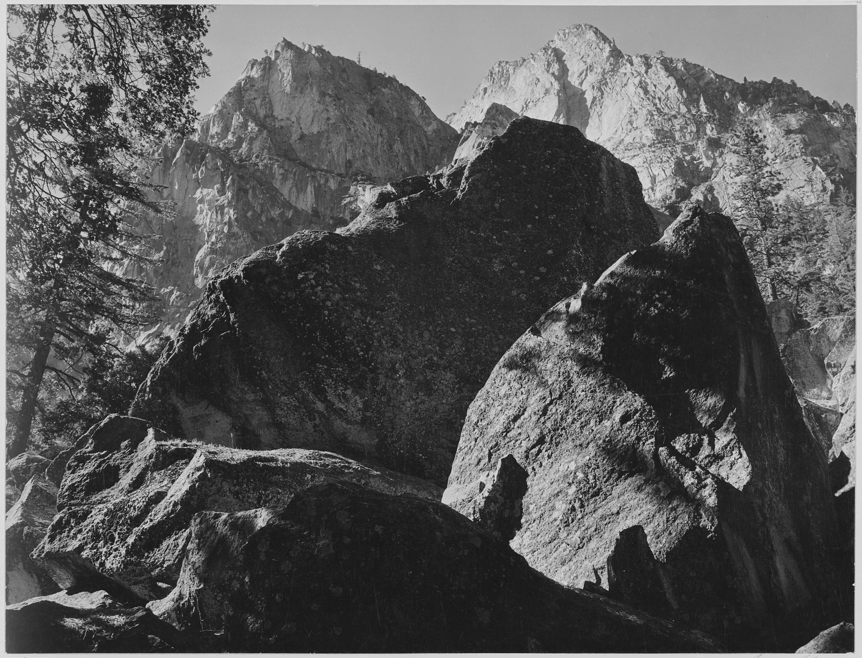 "Grand Sentinel, Kings River Canyon (Proposed as a national park)," California, 1936.; From the series Ansel Adams Photographs of National Parks and Monuments, compiled 1941 - 1942, documenting the period ca. 1933 - 1942.